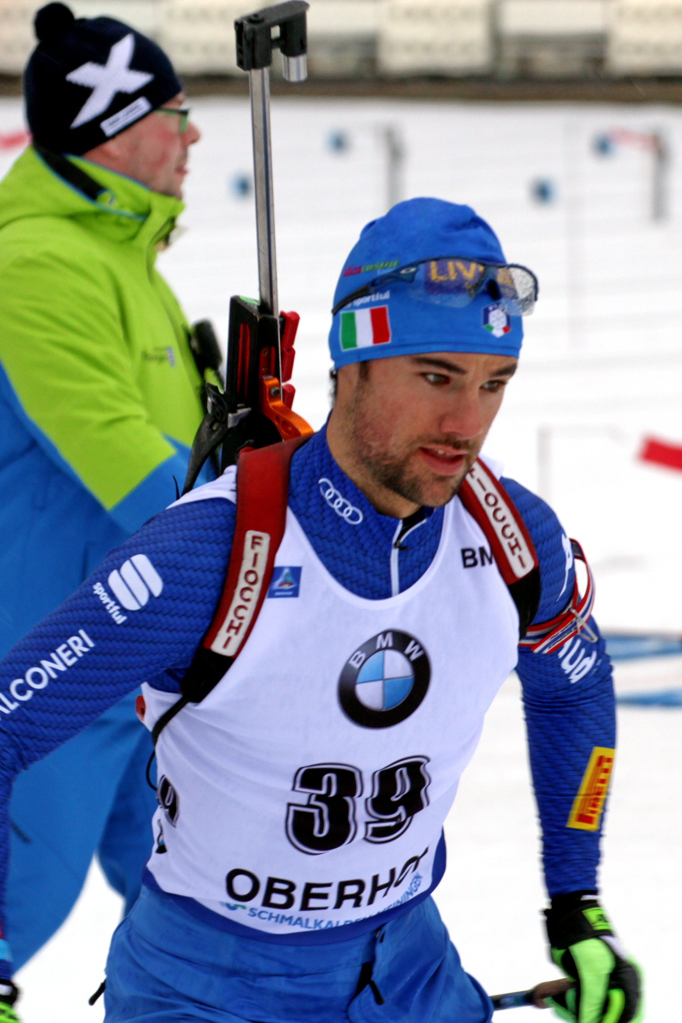 2018 Oberhof Biathlon World Cup - Sprint Men